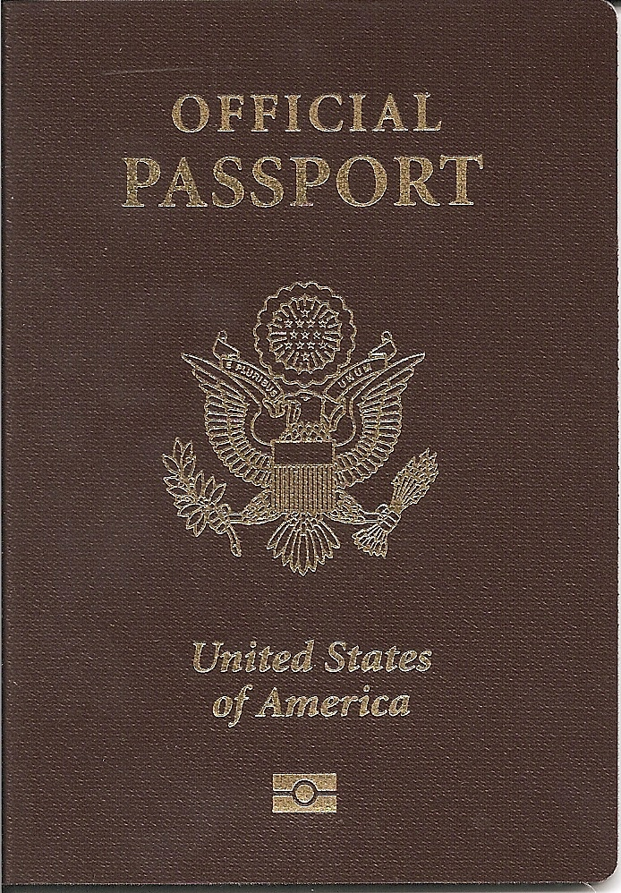 Cover of a passport of the United States. Specifically, an official (maroon) one, issued in December 2006 (with the biometric passport indicator) Category:Images of passports